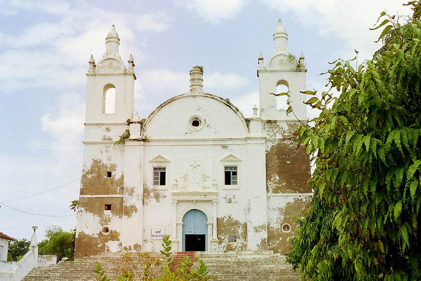 Église St Thomas, Diu - Inde / St. Thomas Church, Diu - India